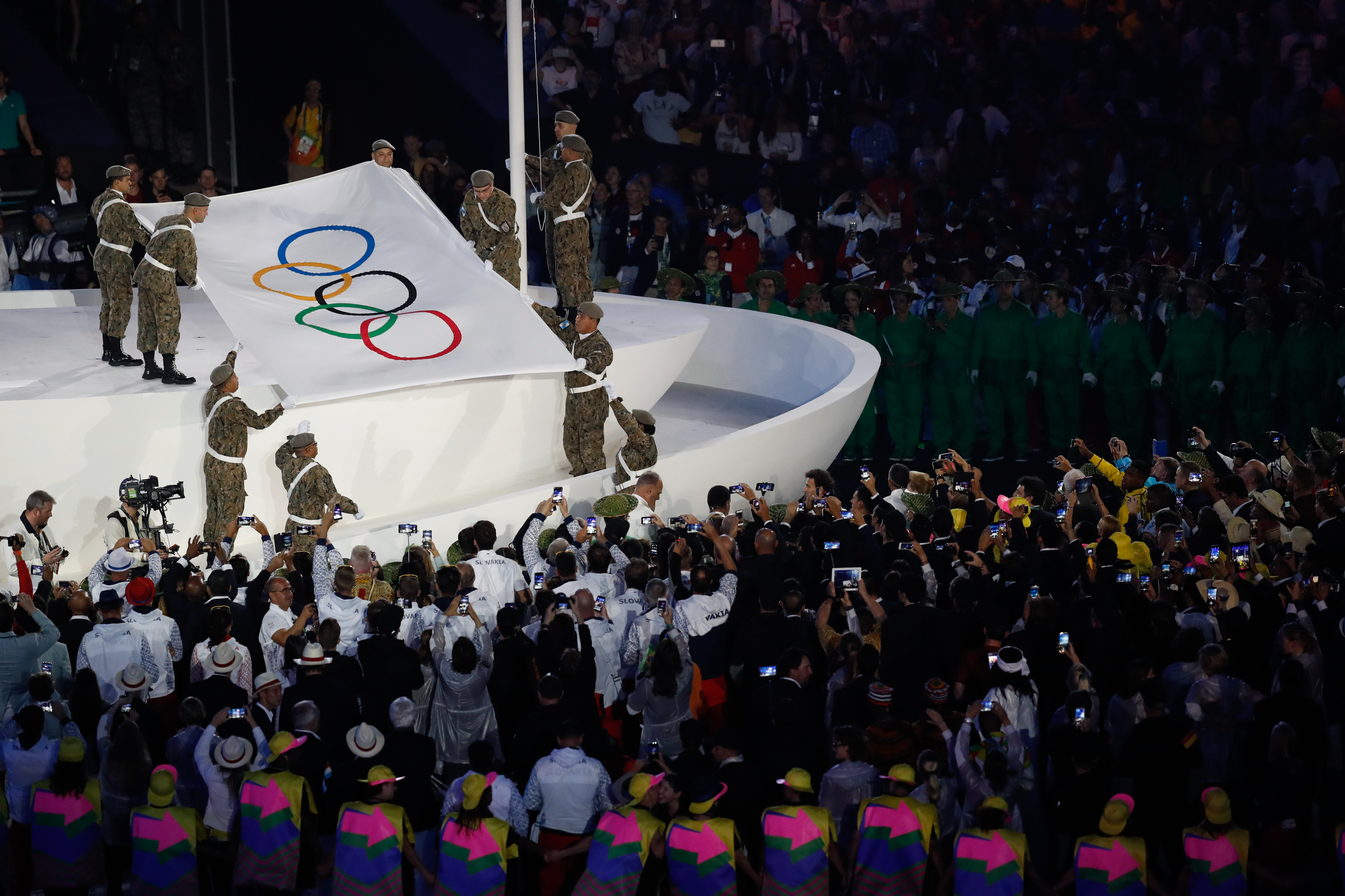 Rio de Janeiro - Cerimônia de abertura dos Jogos Olímpicos Rio 2016 no Estádio do Maracanã. (Fernando Frazão/Agência Brasil)